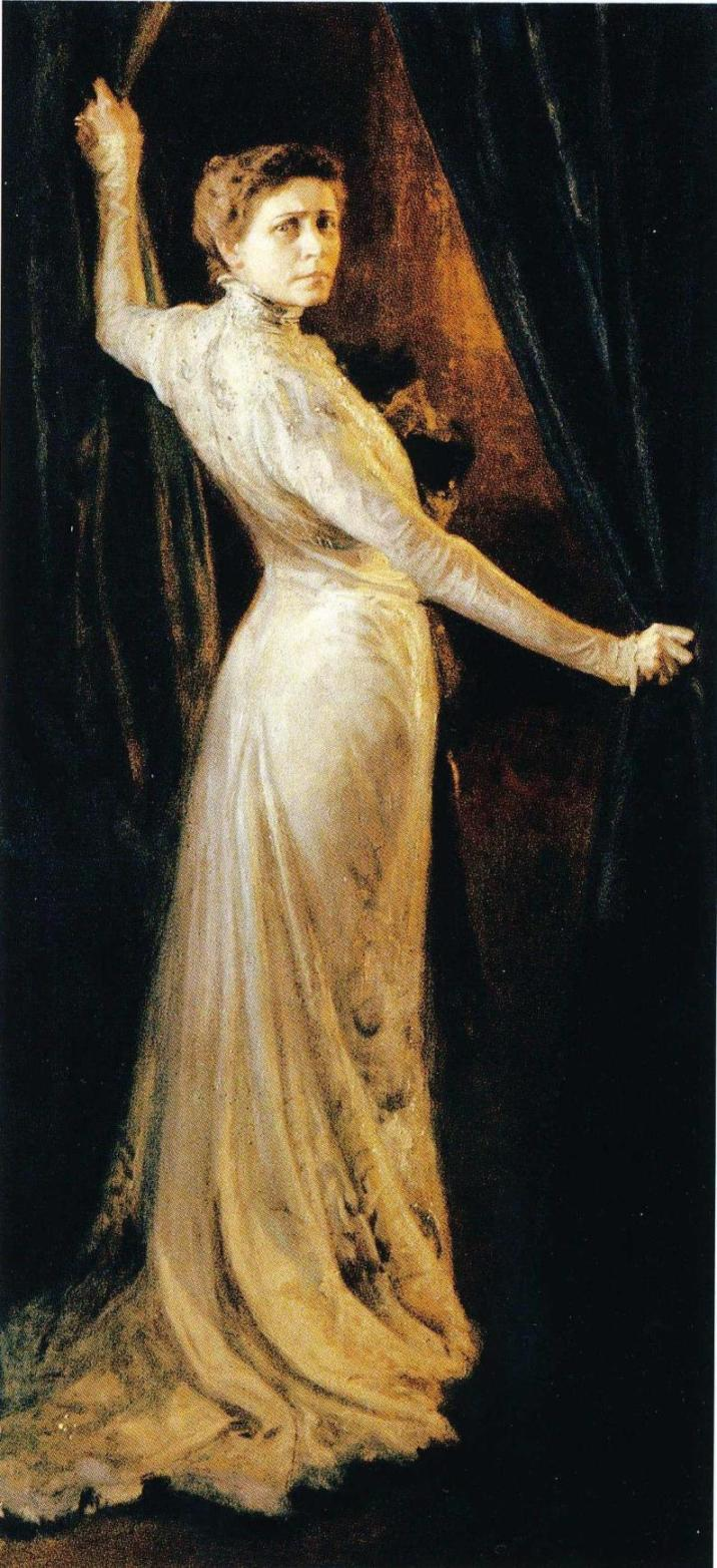 Actress Ida Aalberg (1857–1915) as the eponymous character in Henrik Ibsen's play Hedda Gabler. Portrait owned by National Theatre of Finland.